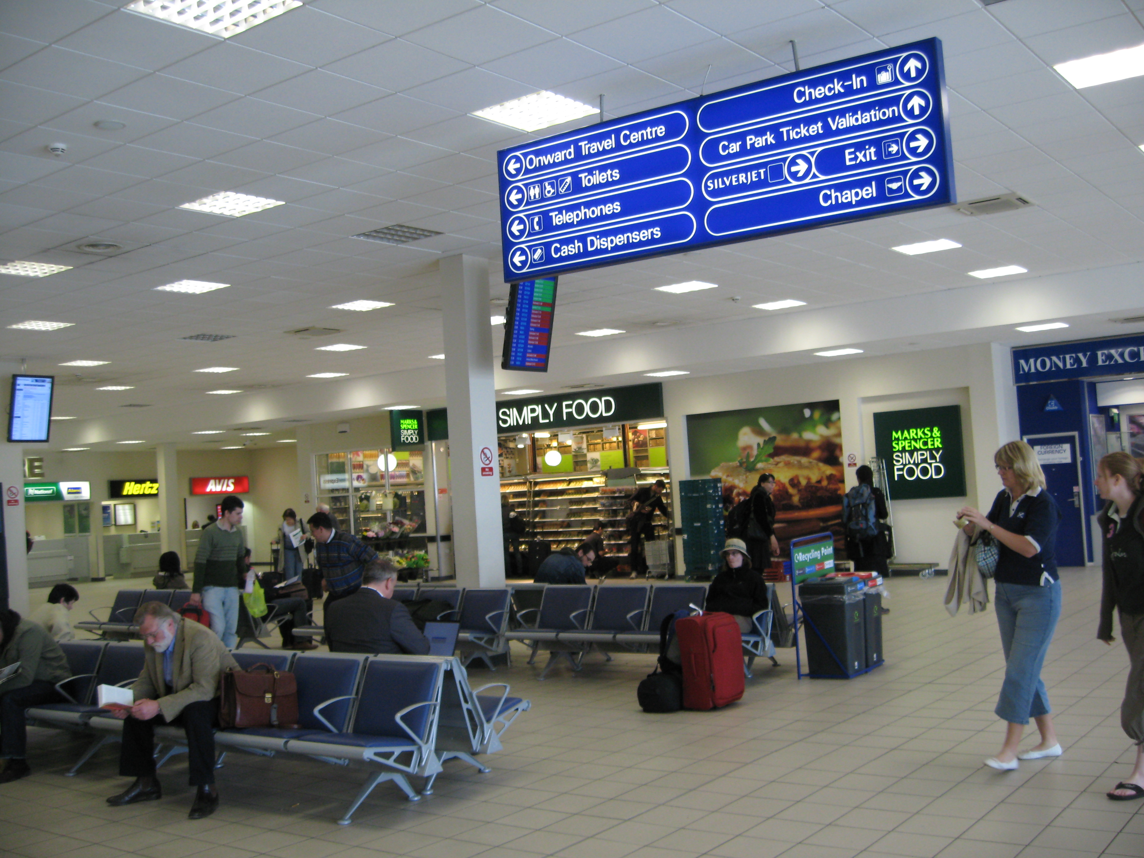 Luton airport main hall.